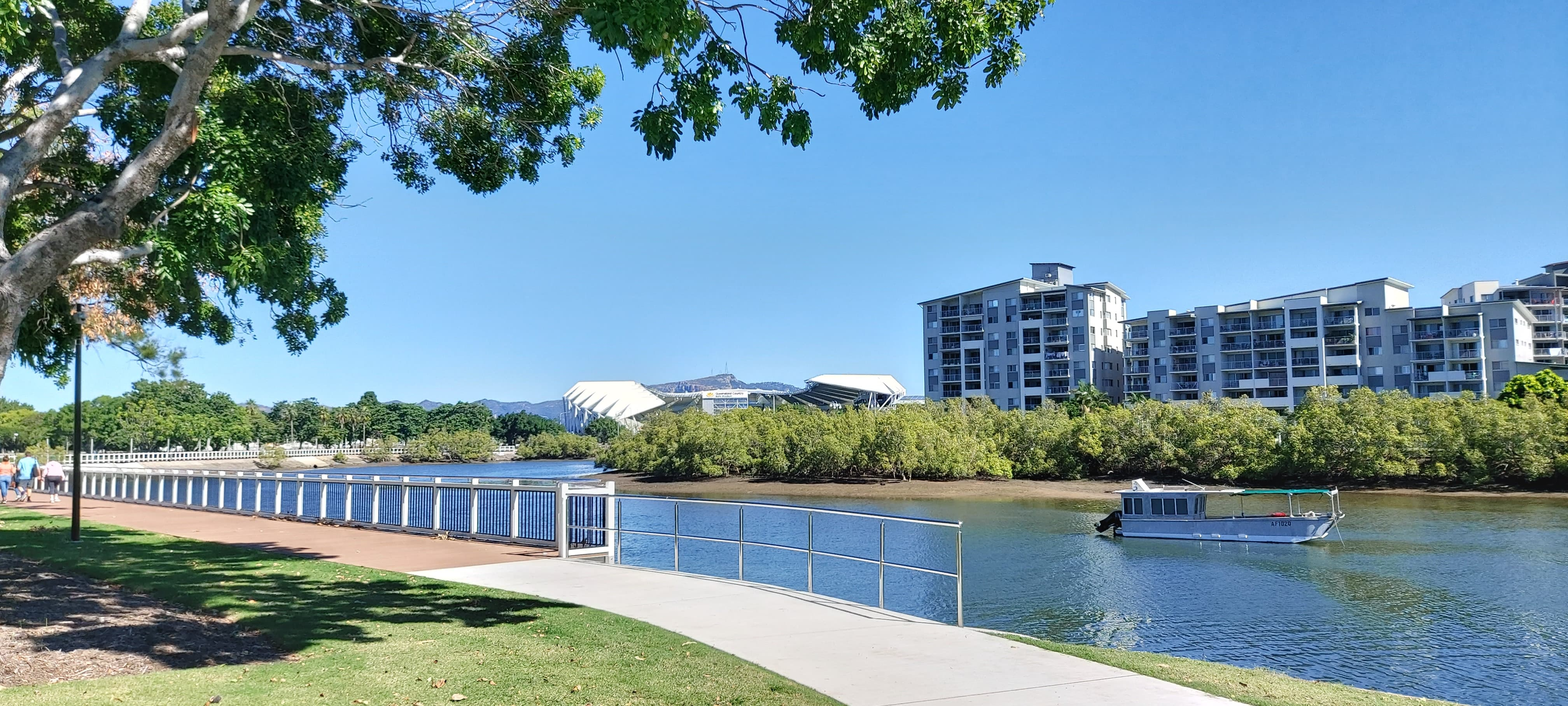 A photo of the waterfront in the Townsville CBD in June 2020